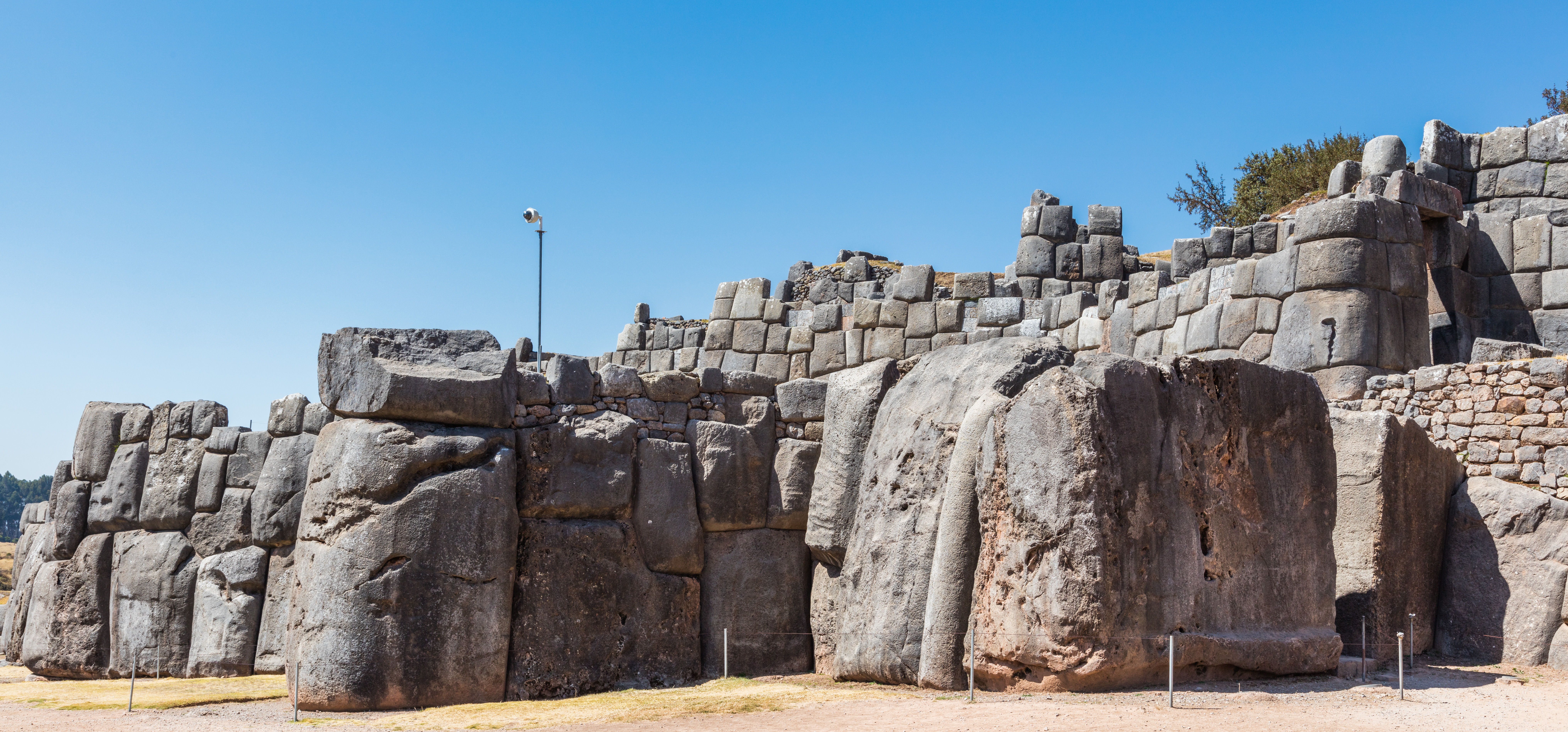 Sacsayhuamán, Cusco, Peru